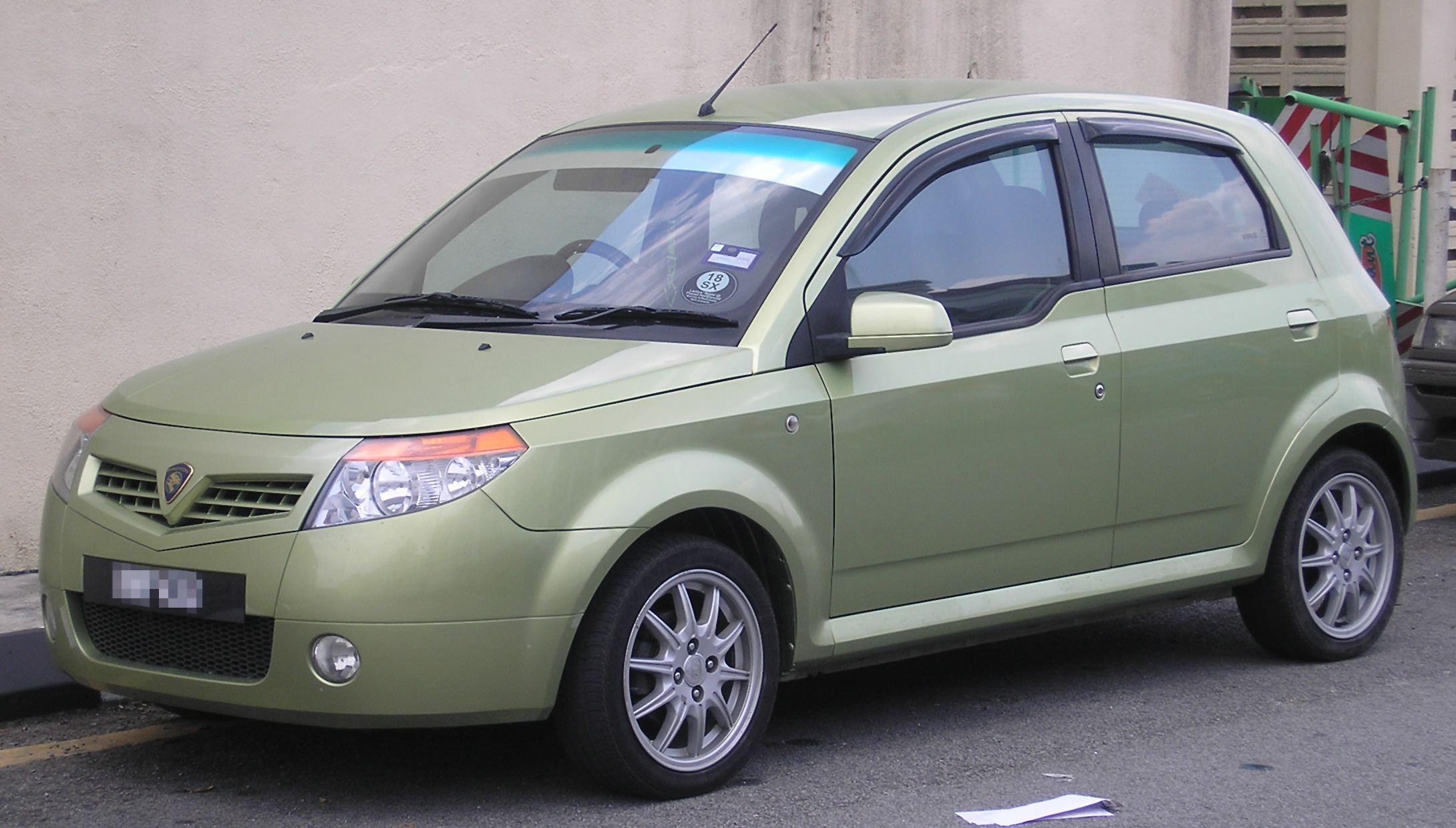 Front-side shot of an first generation Proton Savvy, in Serdang, Selangor, Malaysia.